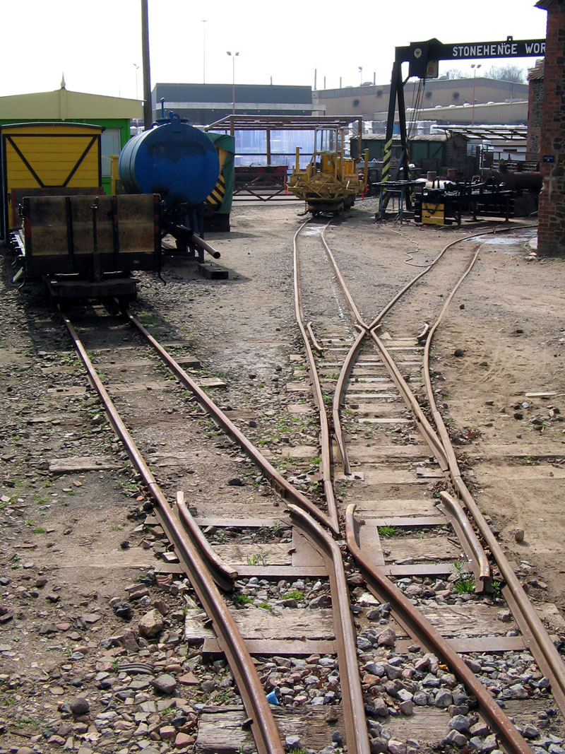 2 foot (610mm) Narrow gauge tracks at the Leighton Buzzard Railway in Bedfordshire, England.